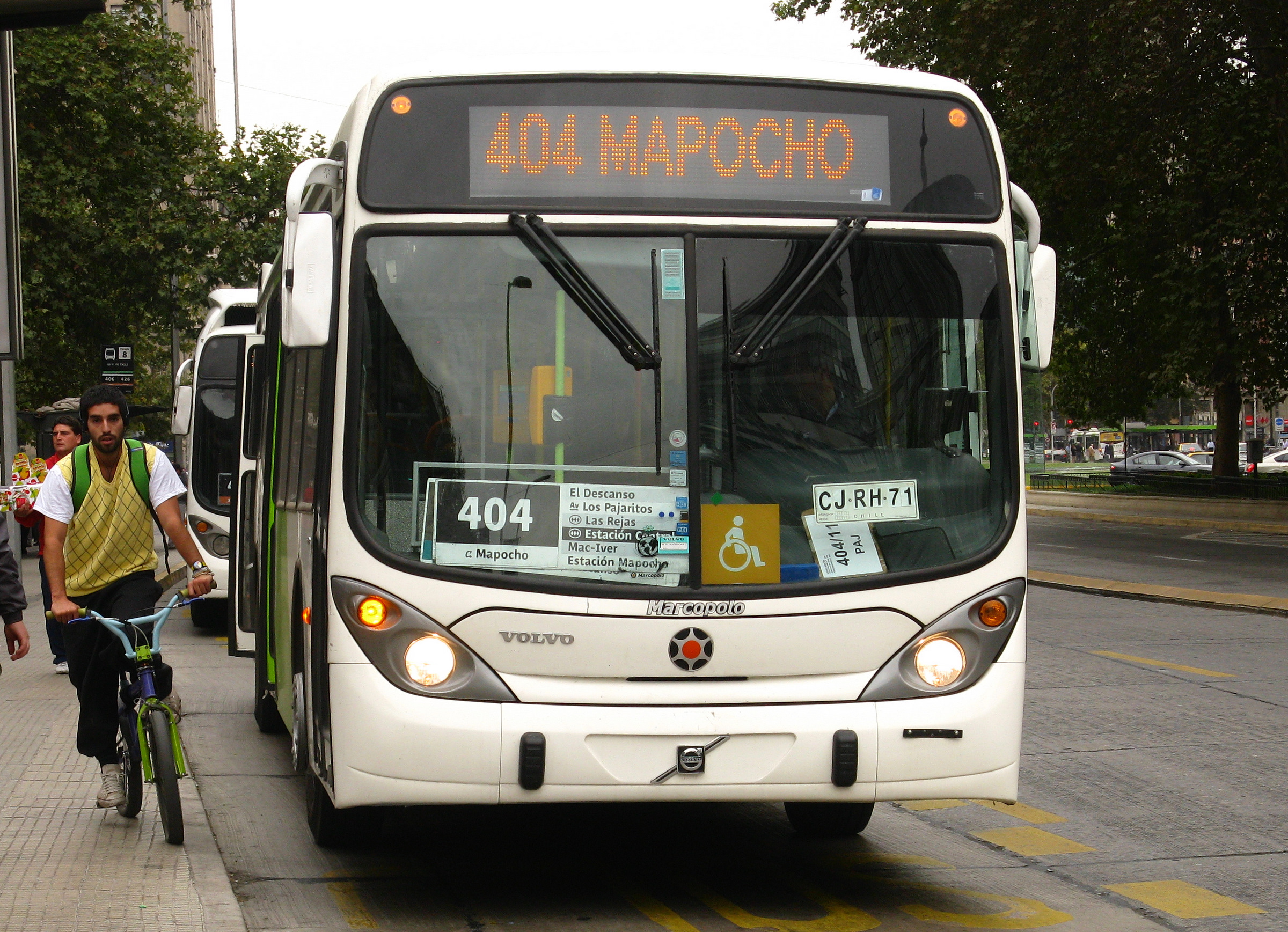 Marcopolo Gran Viale 2011 bus (reg. CJ-RH-71) in the service 404 of Transantiago.